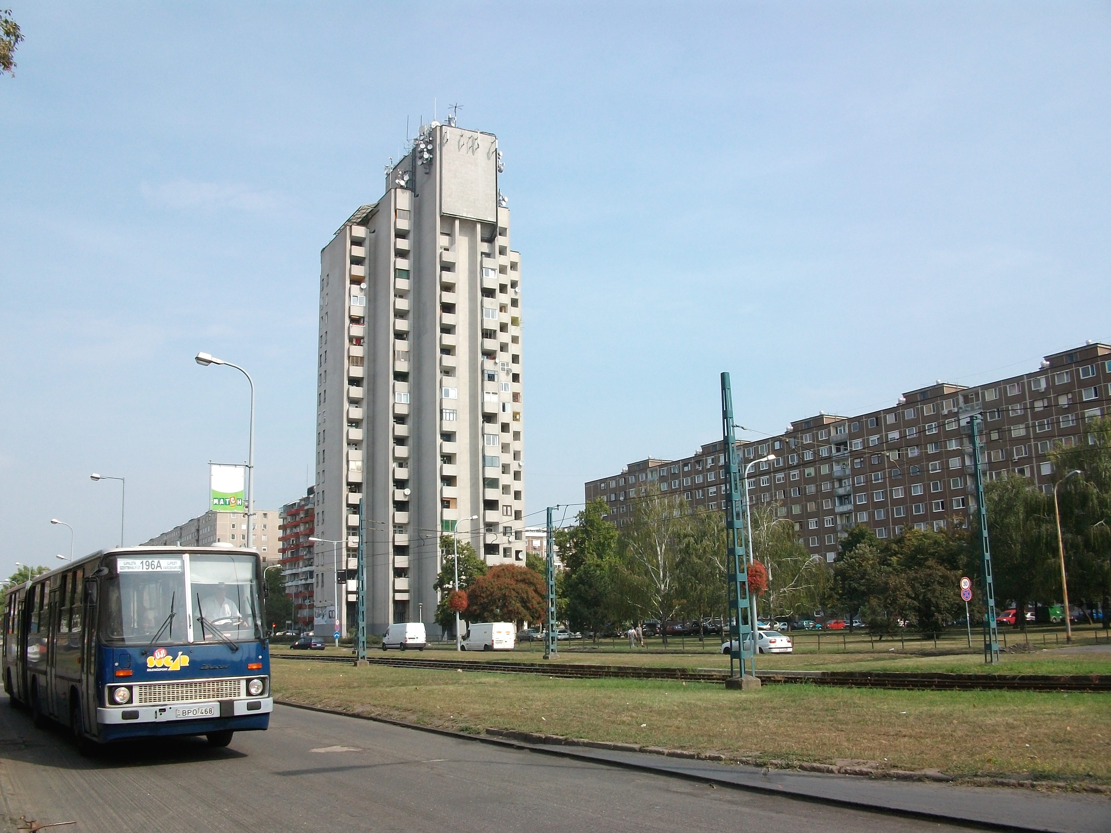 Living socialism in present-day Hungary (Budapest-Újpalota, 2009)